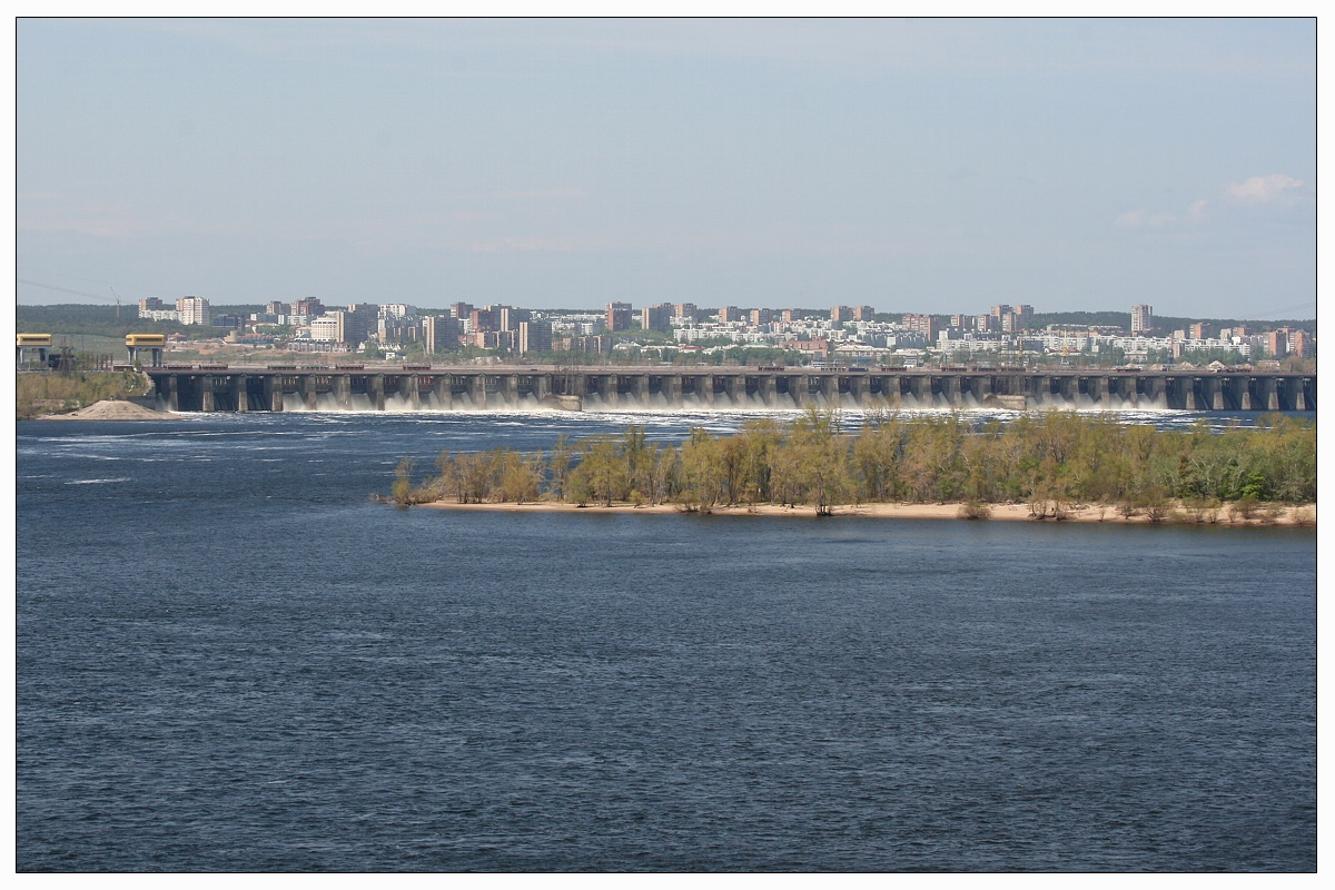 Discharge of water at the Zhiguli Hydroelectric Power Station during a flood and Komsomolsky district of Togliatti